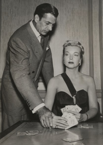 Reed Hadley & Hillary Brooke in the TV series Racket Squad, episode The Case of Lady Luck - publicity still (cropped)